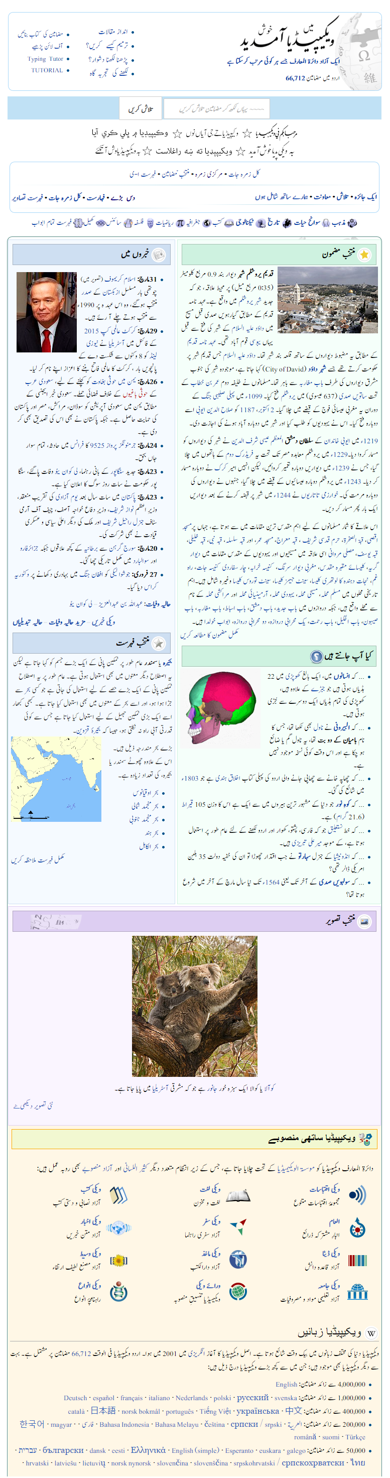 Urdu Wikipedia home page, as viewed with Google Chrome.